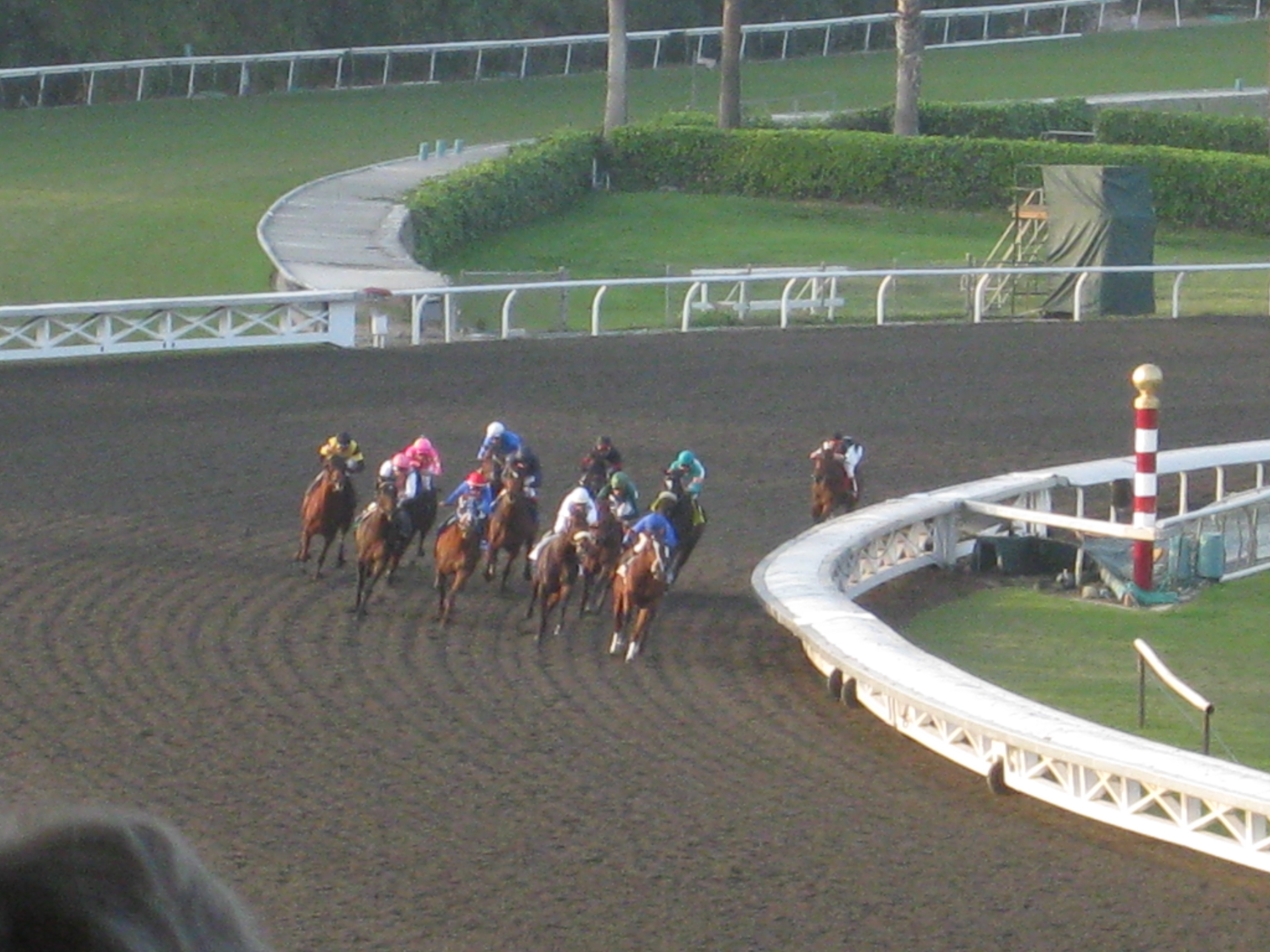 Coming around the final turn in the 2009 Breeders Cup Classic.